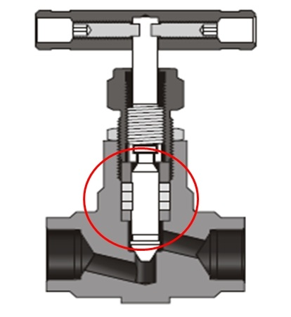 Design of a needle valve